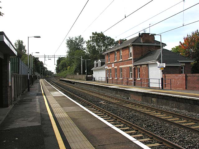 Adlington Station